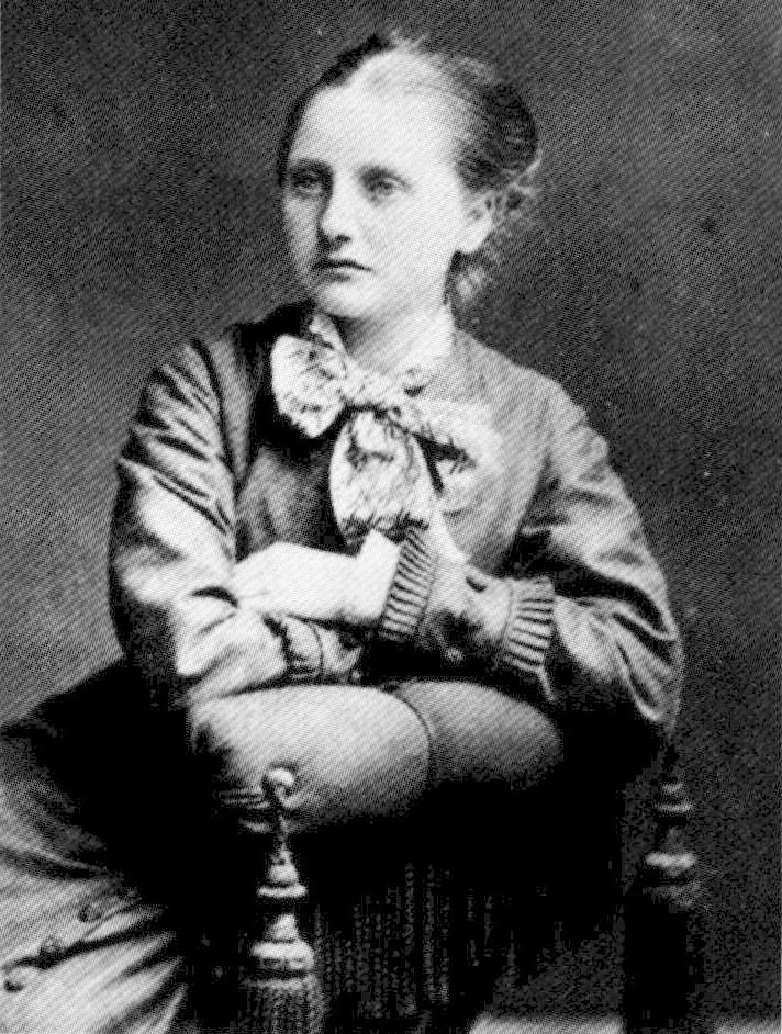 Swedish temperance activist and feminist Emilie Rathou (1862-1948)